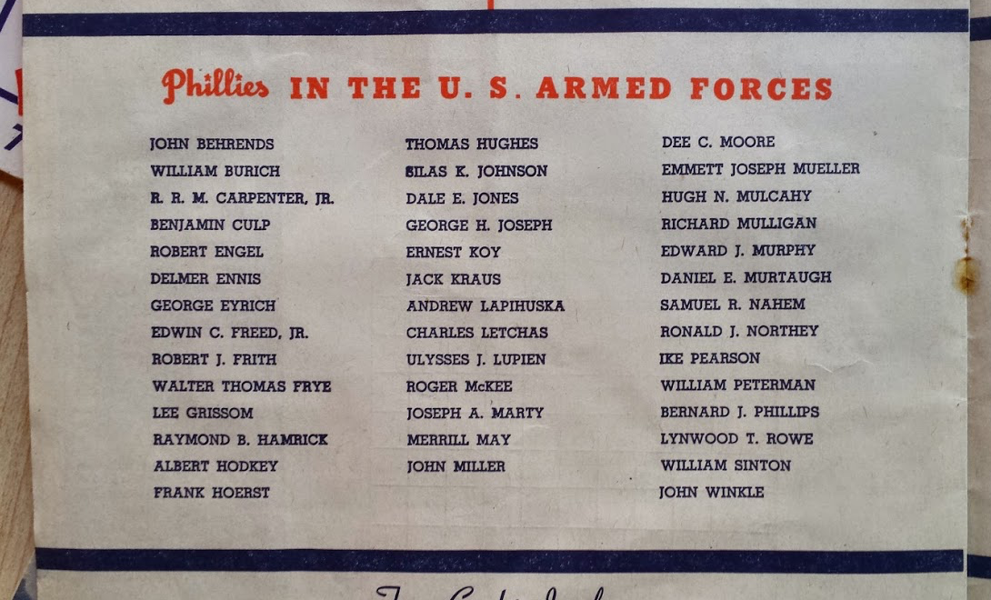 1945PHILAPROGRAM_ARMEDFORCES